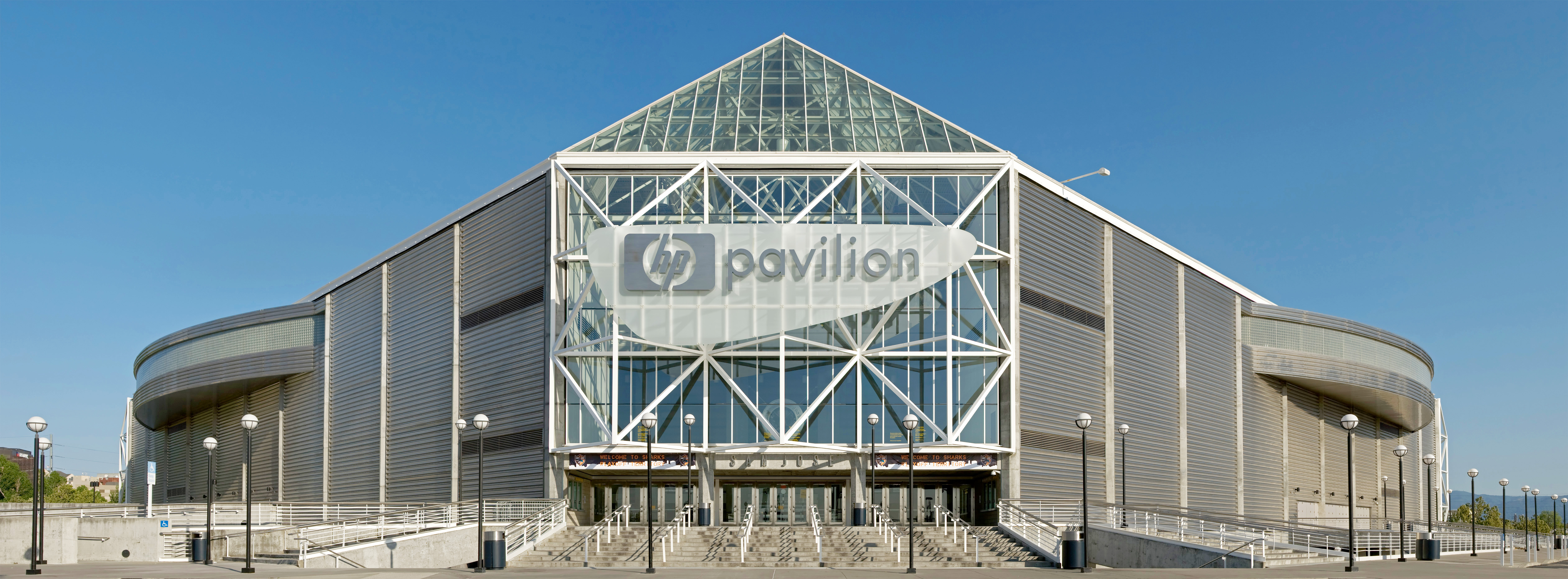 The HP Pavilion is a sports venue in San Jose, California, best known as the home of the San Jose Sharks (pro hockey), but also hosts the SAP Open (men's tennis tournament) and San Jose SaberCats (arena football). It hosts about 160 events a year, seating just under 20,000 people (the amount of seating available depends on the event).